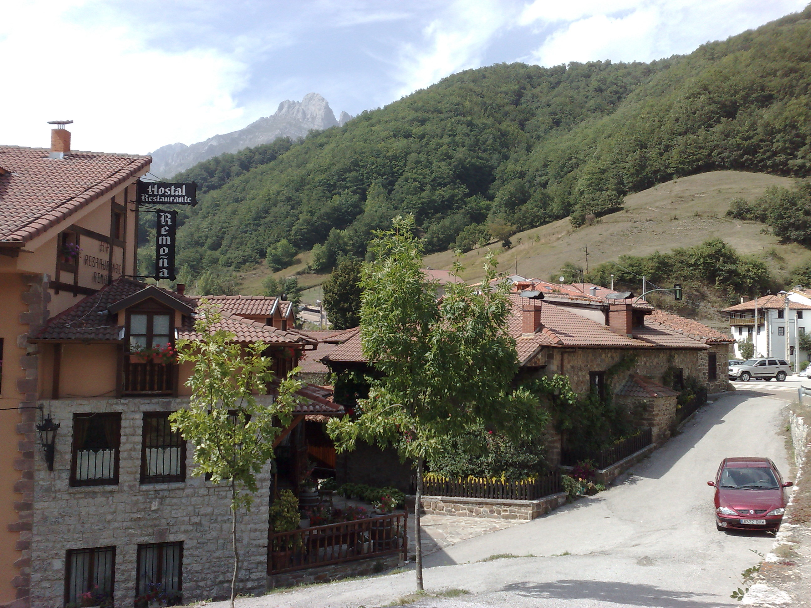 Street of Espinama, pointing to Fuente Dé